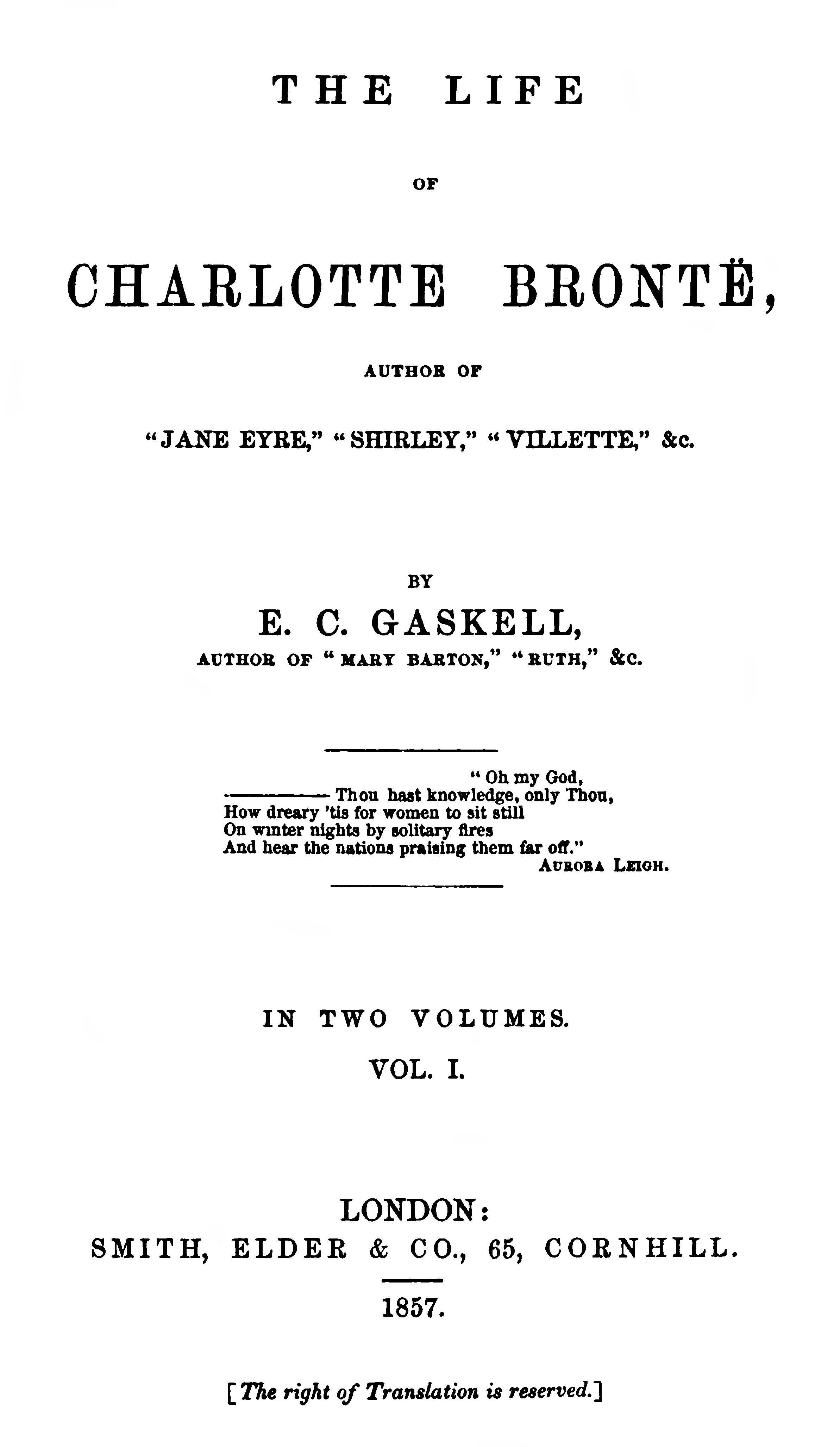 First edition title page of The Life of Charlotte Bronte by Elizabeth Gaskell